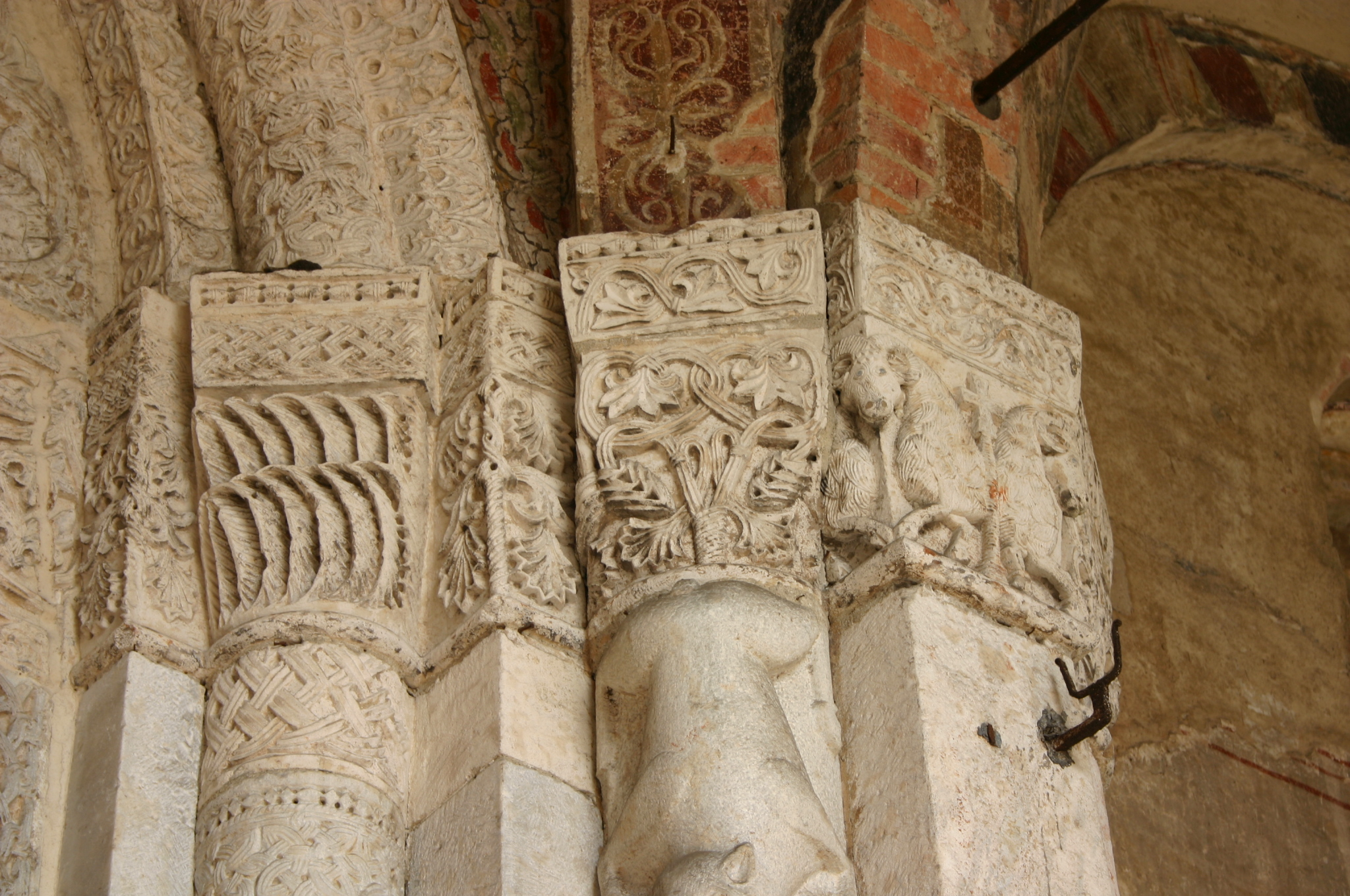 Romanesque capitals on the facade of Sant'Ambrogio basilica in Milan, Italy. Picture by Giovanni Dall'Orto, April 25 2007.